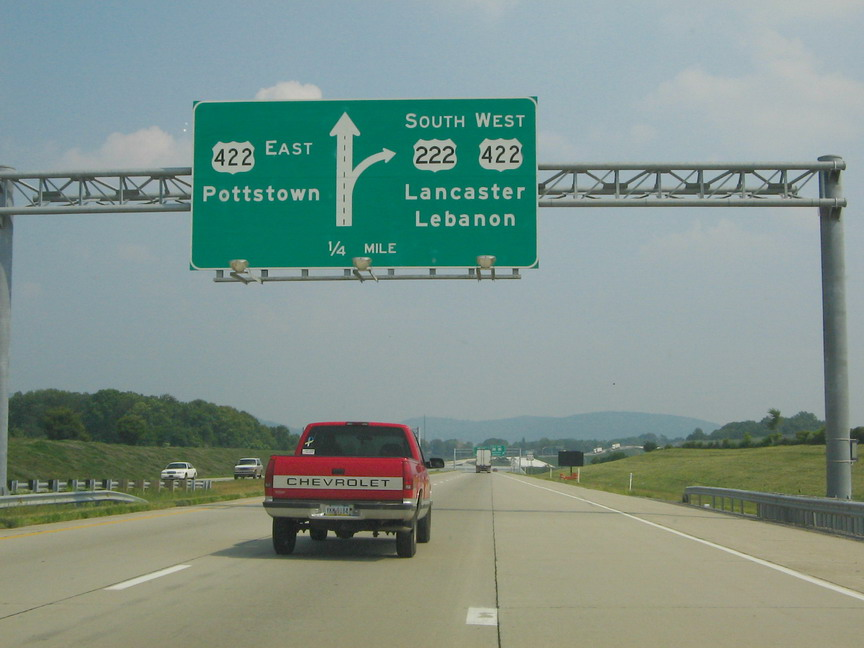 U.S. Route 222 southbound approaching its connection with U.S. Route 422 in Spring Township, Berks County, Pennsylvania.